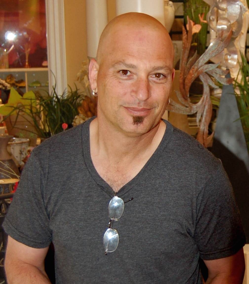 Howie Mandel at the Wynn Hotel in Las Vegas